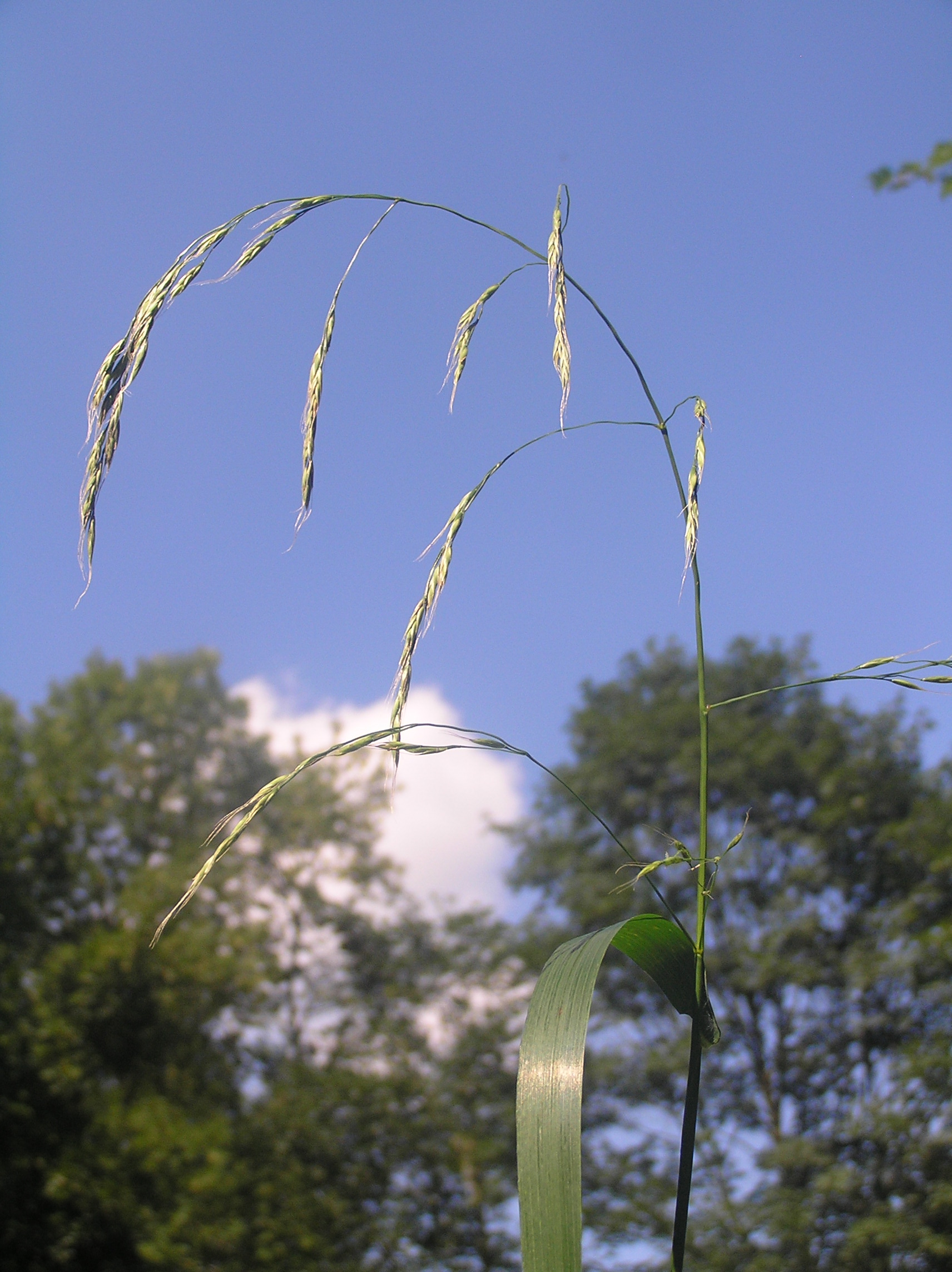 Festuca gigantea, Choceň, Czech Republic